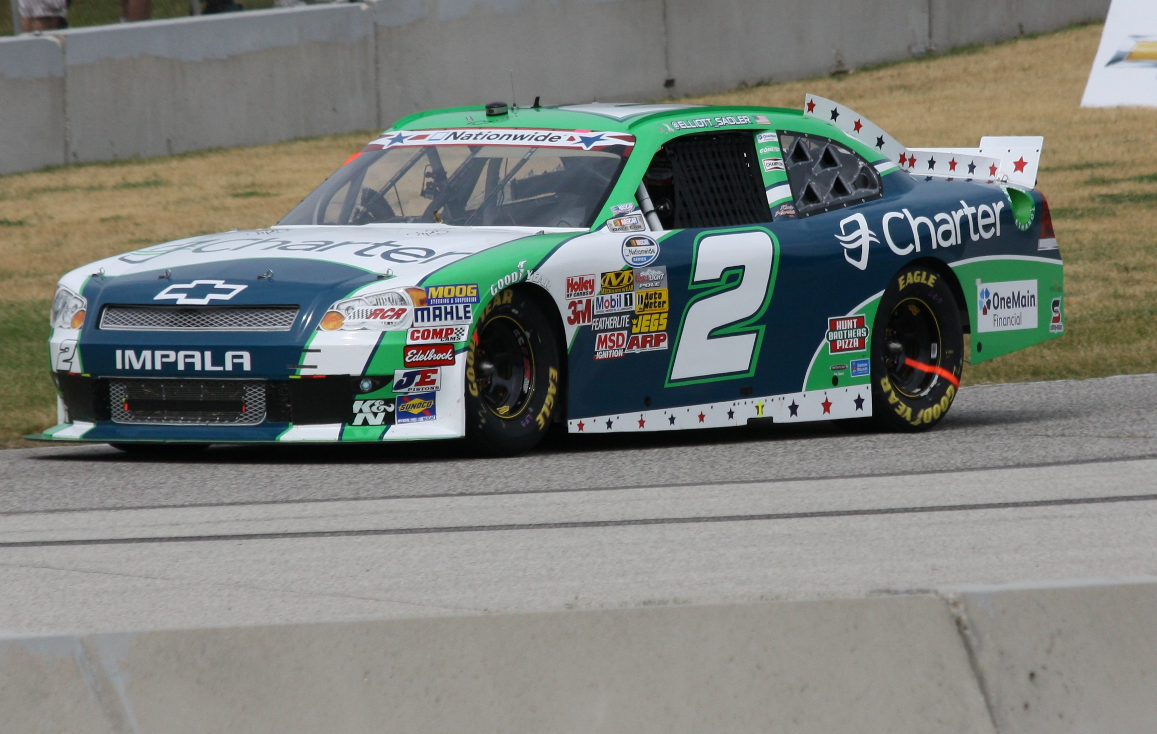 Elliott Sadler NASCAR Nationwide Series car at Road America at the 2012 Sargento 200.